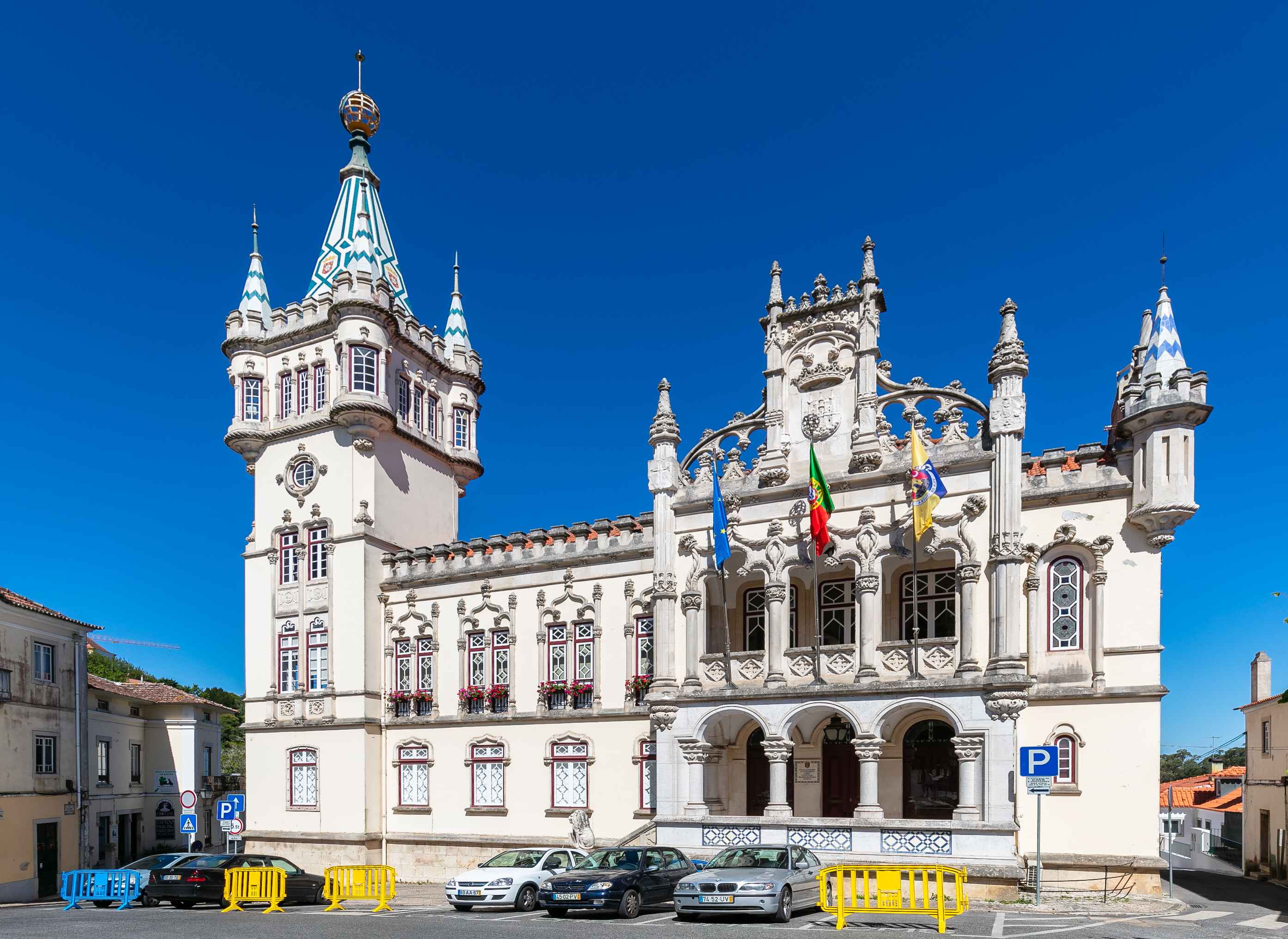 Câmara Municipal de Sintra, Sintra, Portugal